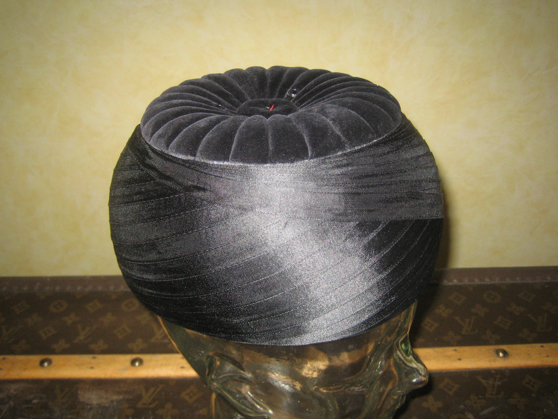 Tabieh/Tabiah the headgear of the Maronite clergy